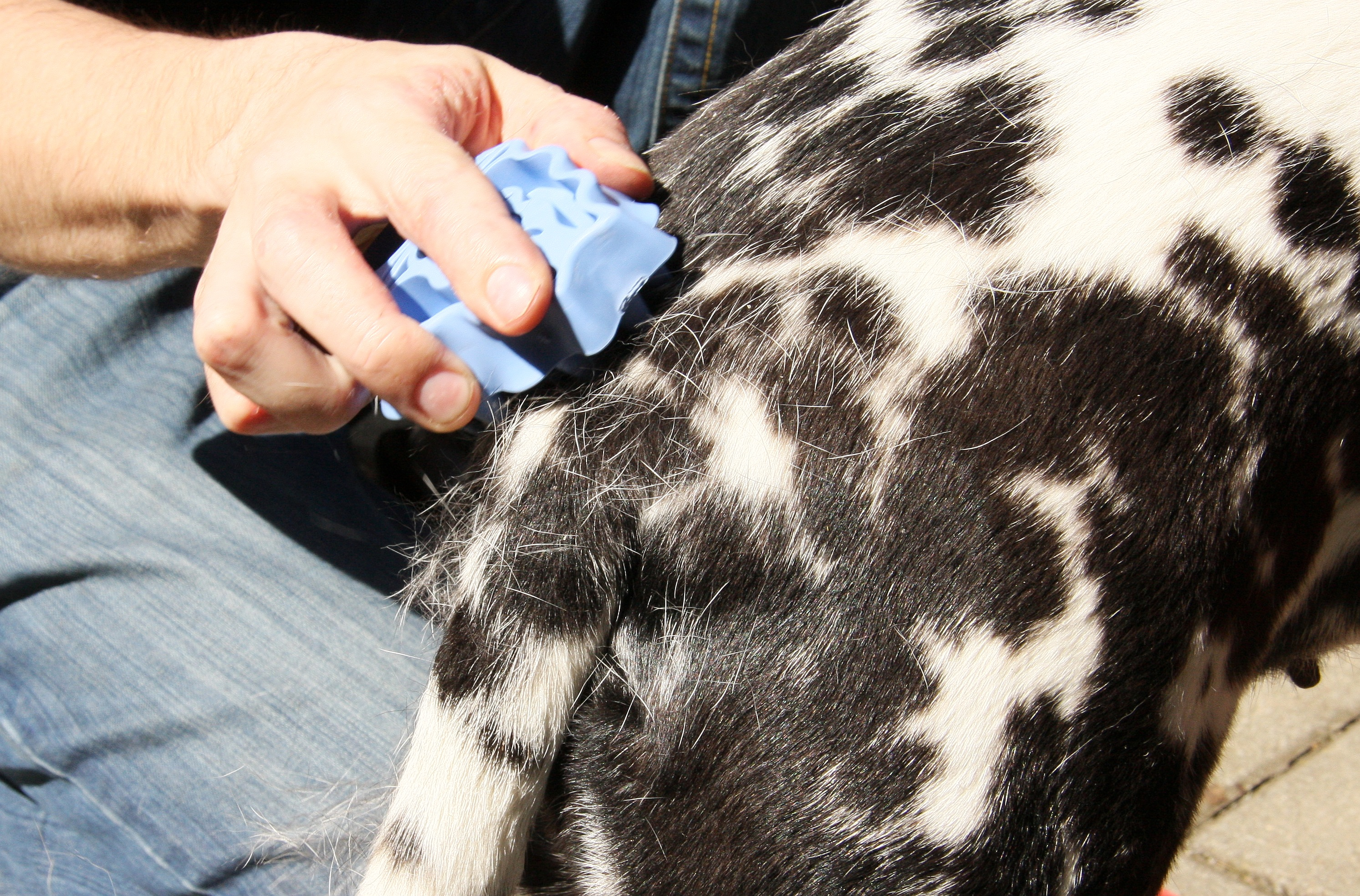 April 2012 Creative Commons Licence BY 2.0 Quellenangabe / Credit: Photo by Maja Dumat